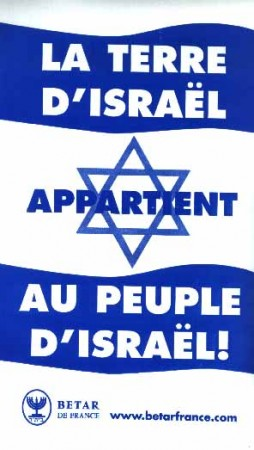 affiche betar